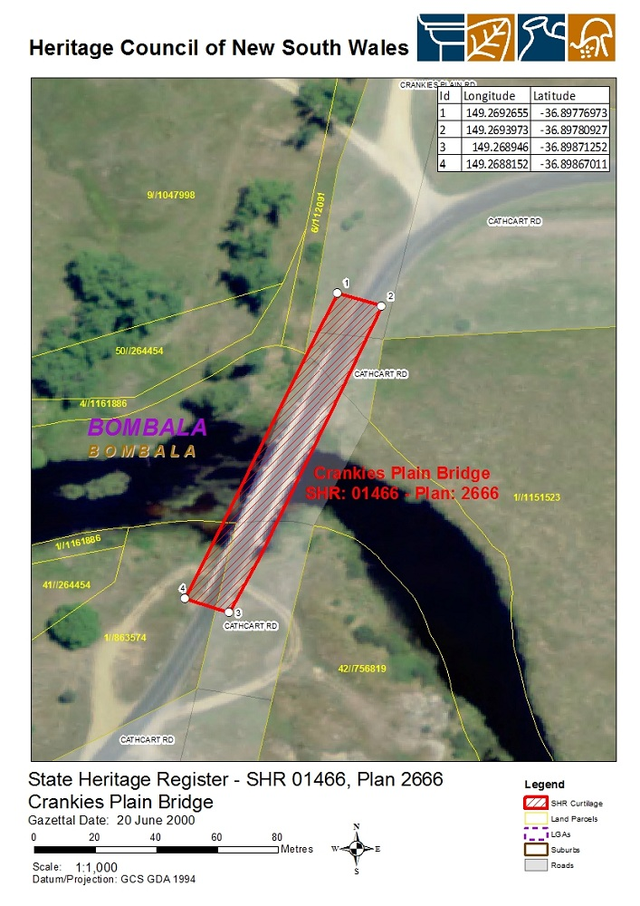 Crankies Plain Bridge: SHR Plan No 2666